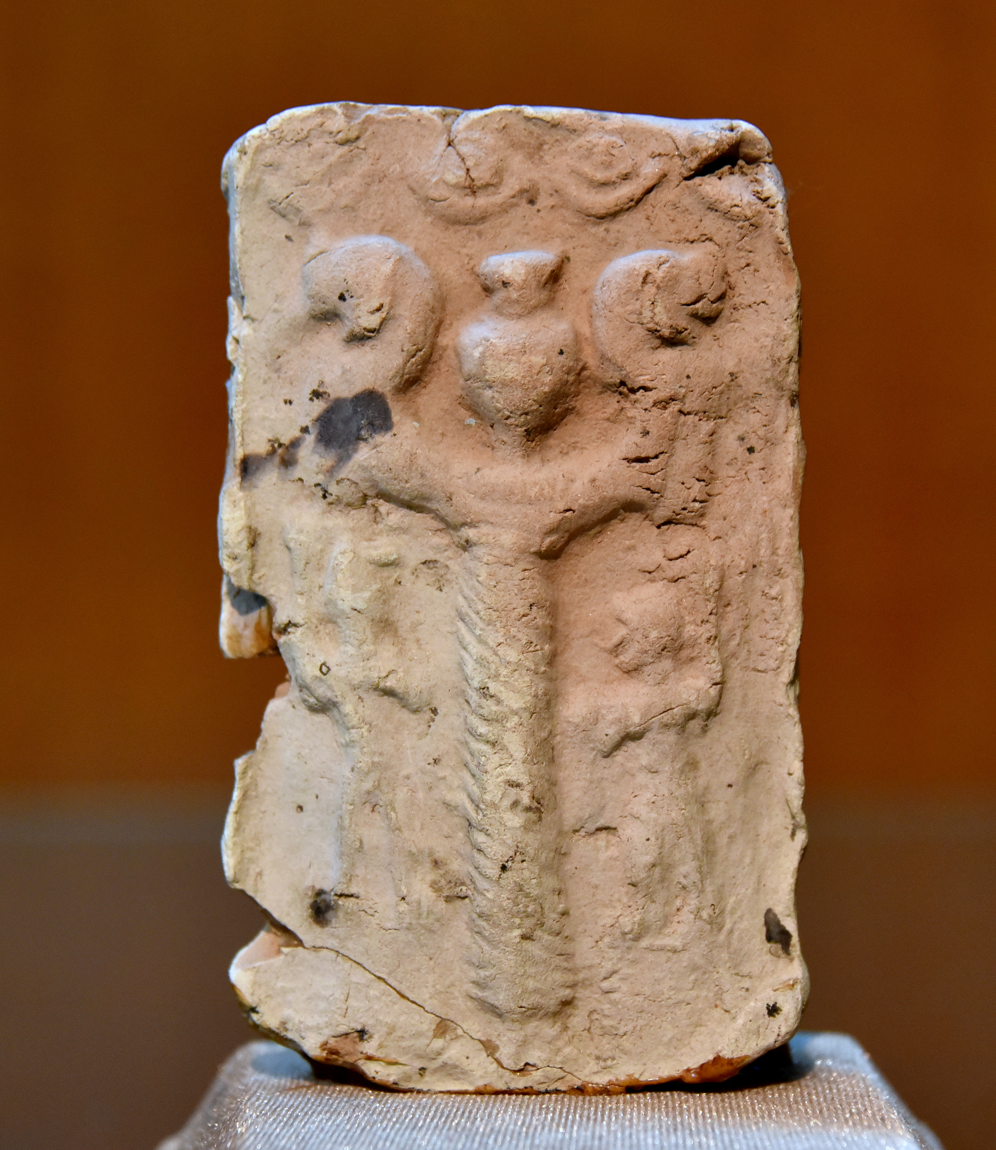 Nergal (Mesopotamian deity of the underworld), flanked by 2 small human figures. Old-Babylonian fired clay plaque, 2003-1595 BCE. From Nippur, Southern Mesopotamian, Iraq. From the 2nd excavation season of the Oriental Institute of the University of Chicago at Nippur (found at the Scribal Quarter). The Sulaymaniyah Museum, Iraqi Kurdistan.